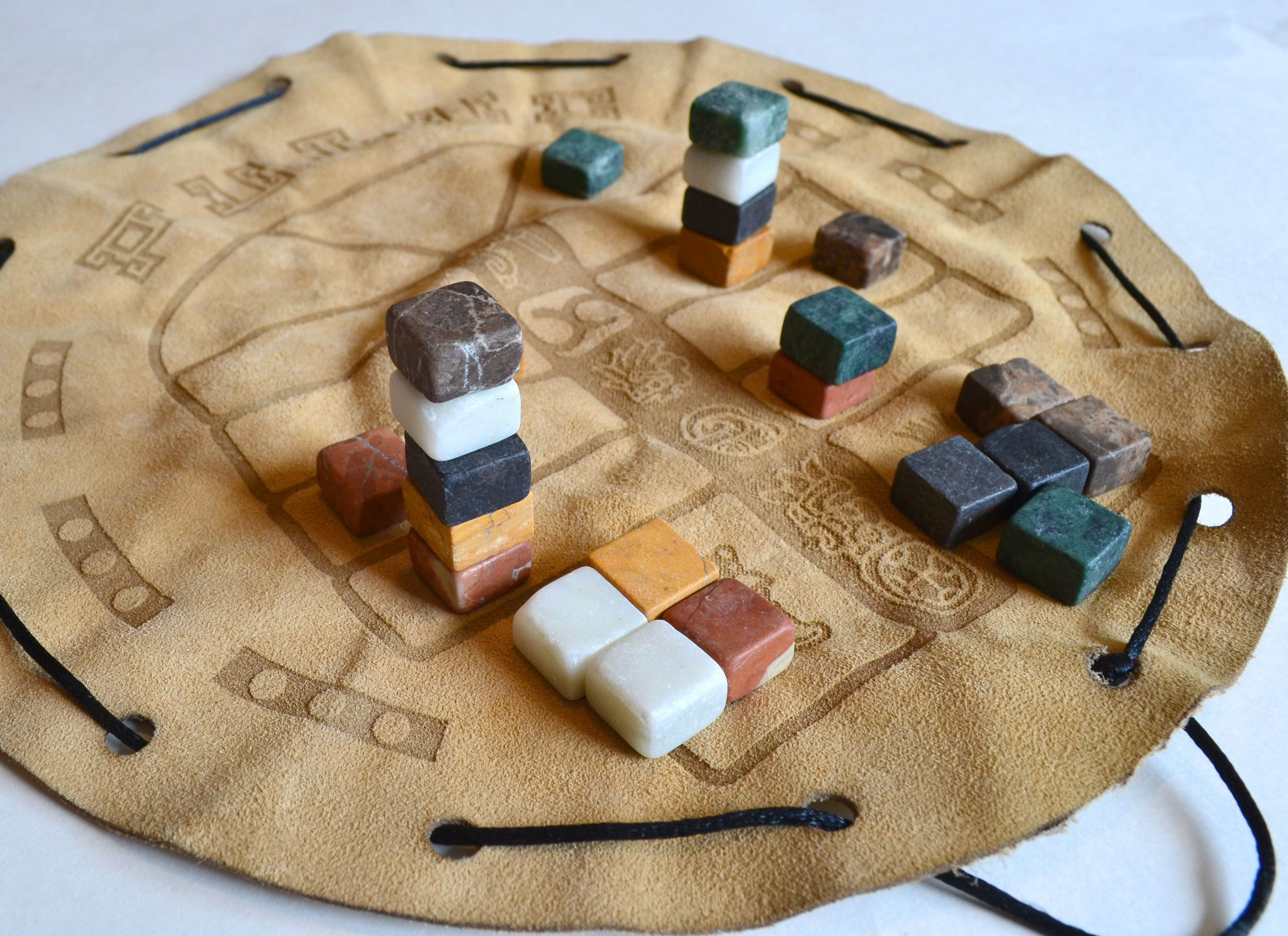 A modern edition of the running-fight game Puluc, or Bul. (Bibelot version from the Reliquary Collection.)